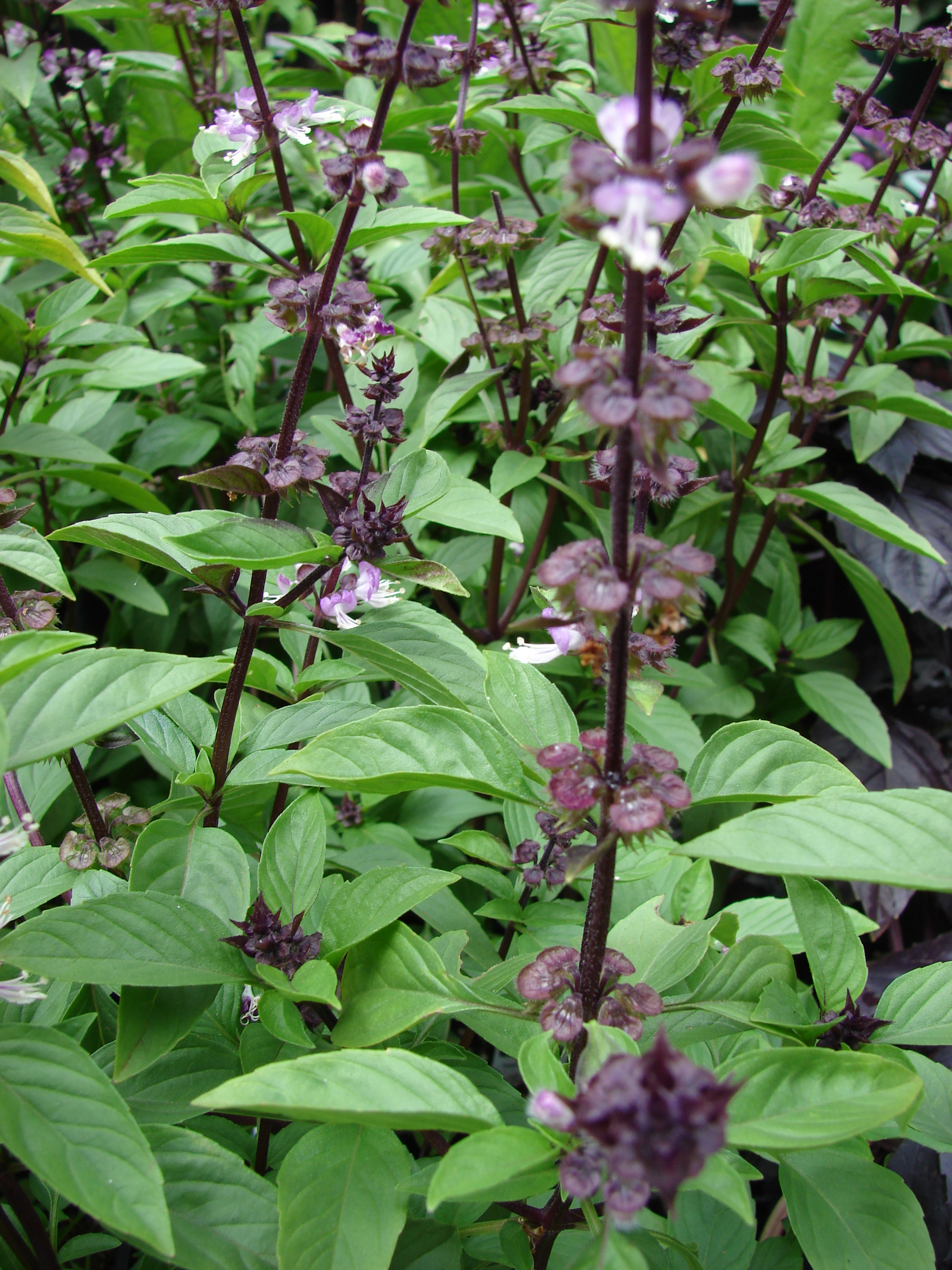 Ocimum basilicum var. thyrsiflorum (Siam Queen flowering habit). Location: Maui, Kula Ace Hardware and Nursery